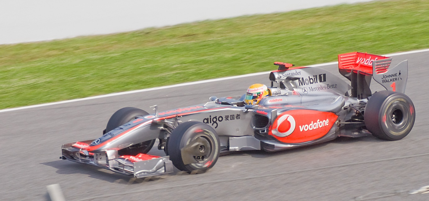 Nikon D90 + Tamron AF 90 2.8 SP Macro 1/250s - F/11 - 90mm - ISO200